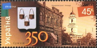 Stamp of Ukraine